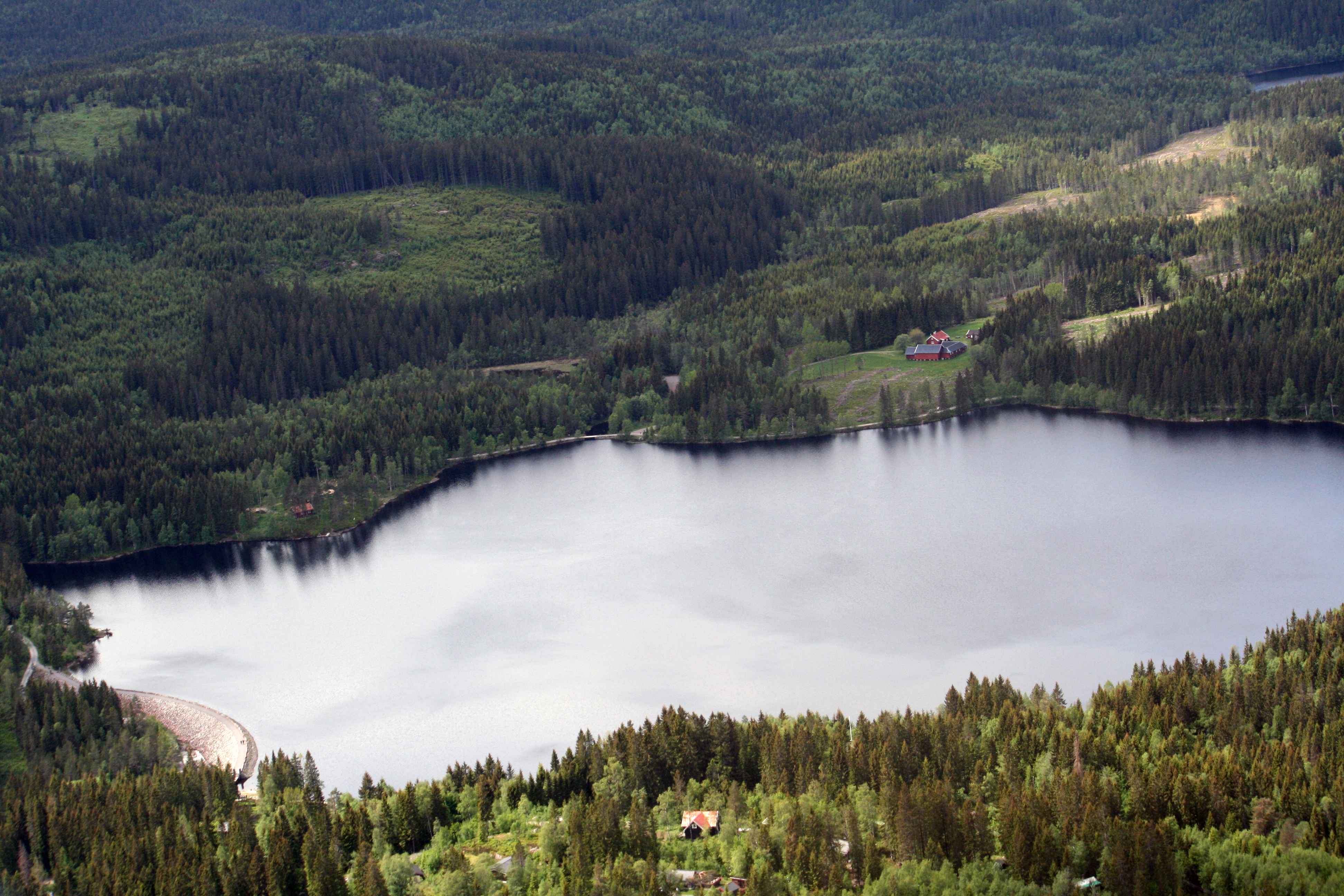 Aerial photograph from June 14th, 2015.